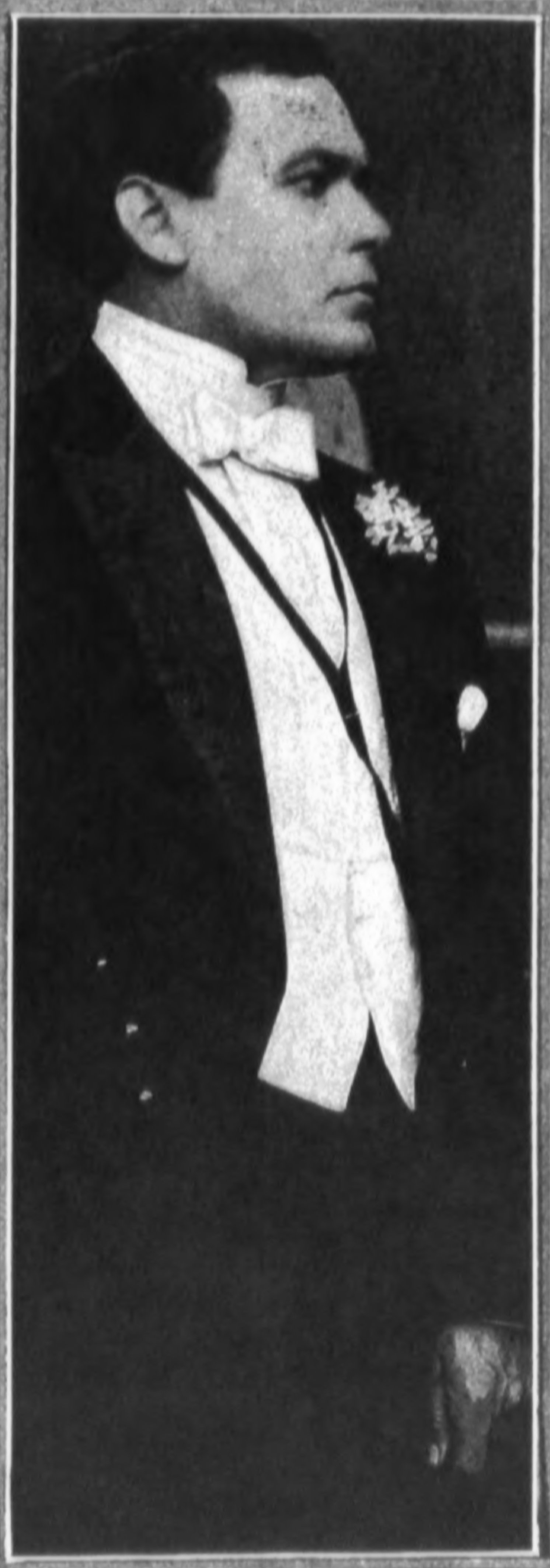 Frank Farrington (8 July 1873, London, England - 27 May 1924, Los Angeles, California) was an American silent film actor. As Paul Temple in Through Turbulent Waters (1915)